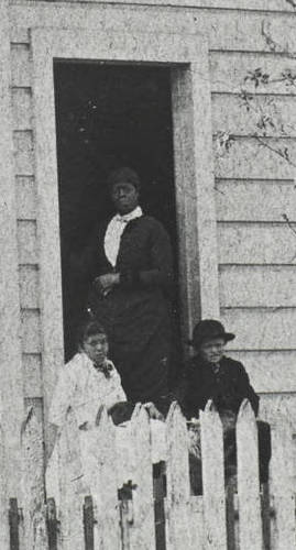 Virginia (Jennie) Prentiss, center, pictured c.1880 in Alameda, CA. The other two figures are not identified. Image cropped to figures. Prentiss was a formerly enslaved person and the caregiver of writer Jack London during his childhood.